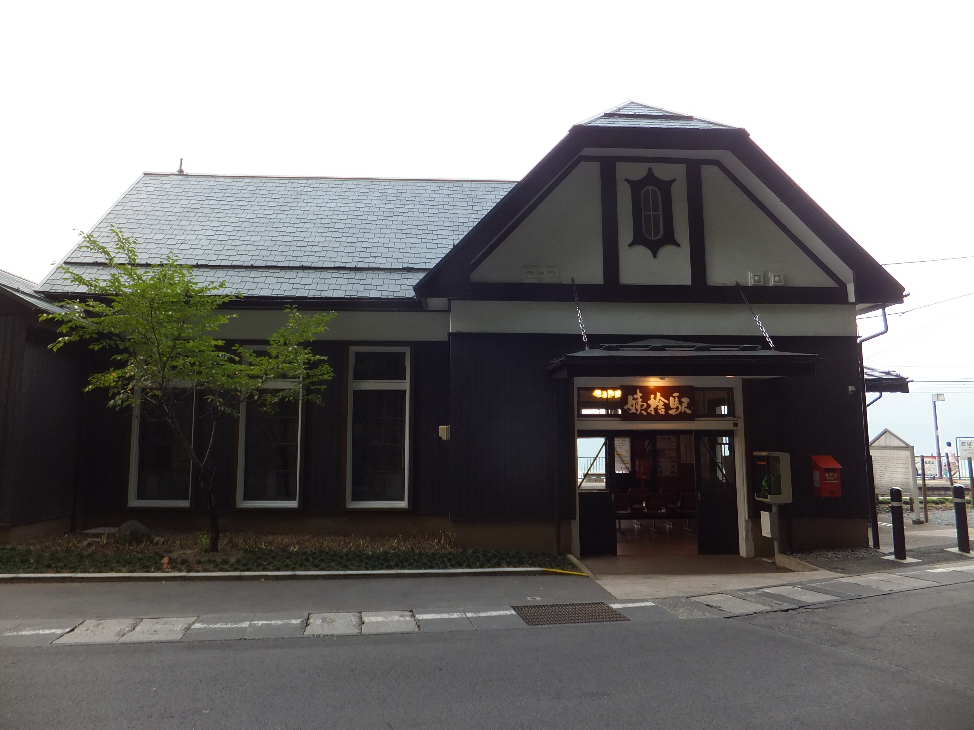 Obasute Station on the Shinonoi Line